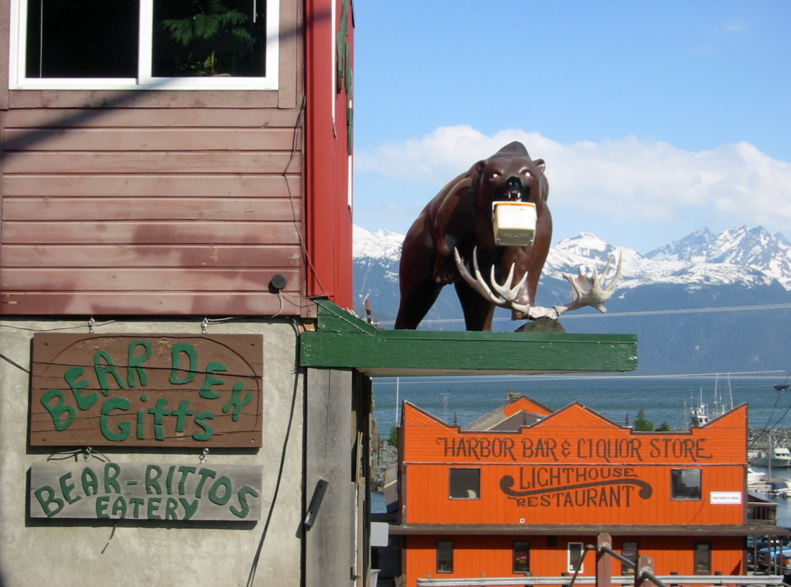 Signs and businesses in Haines, Alaska. There's some interesting signage going on here.